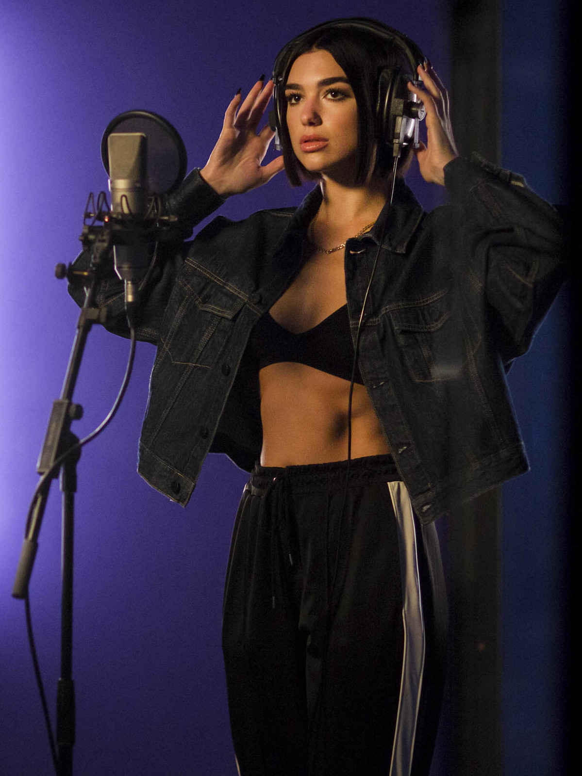 DUA LIPA SHOOT LONDON 11/7/18 PHOTOGRAPHED BY NEALE HAYNES